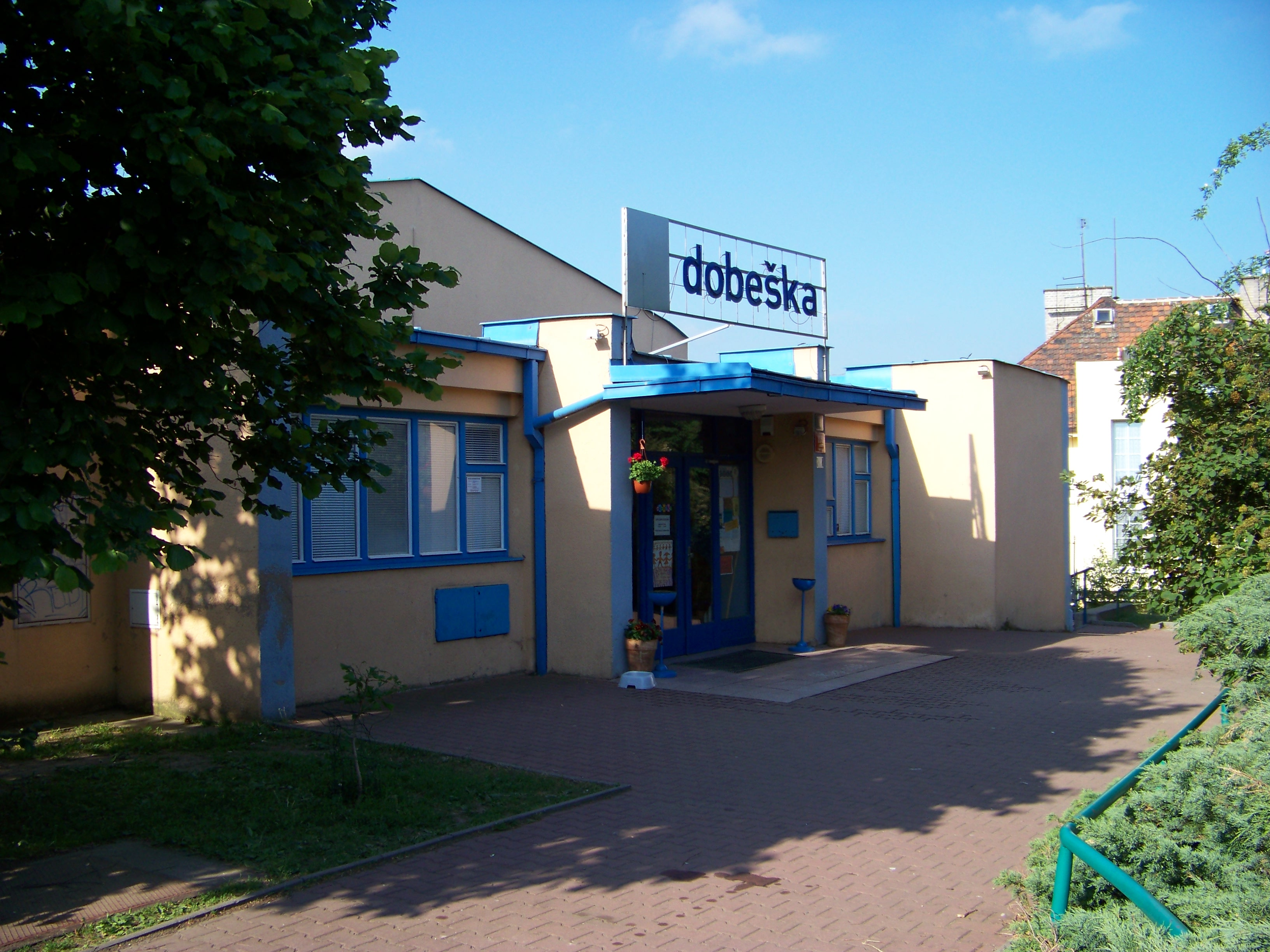 Prague-Braník, the Czech Republic. Jasná I 1181/6, Dobeška Theatre. - OpenStreetMap(Info)